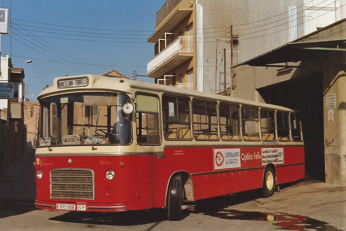 The bus number 19 of Transportes Interurbanos S.A., leaving the workshop of this company in the Comerç street of Sant Vicenç dels Horts.